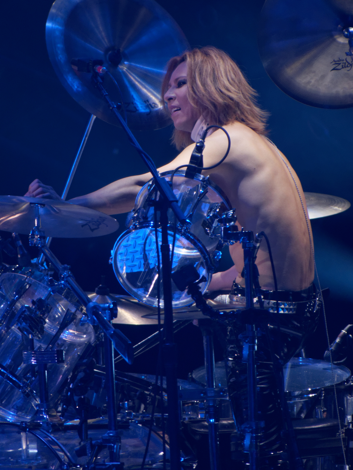 X Japan performing live at Madison Square Garden in New York City on Saturday October 11th, 2014. X Japan is Japan's biggest and most famous rock band, and this was their debut performance at the historic NYC venue.